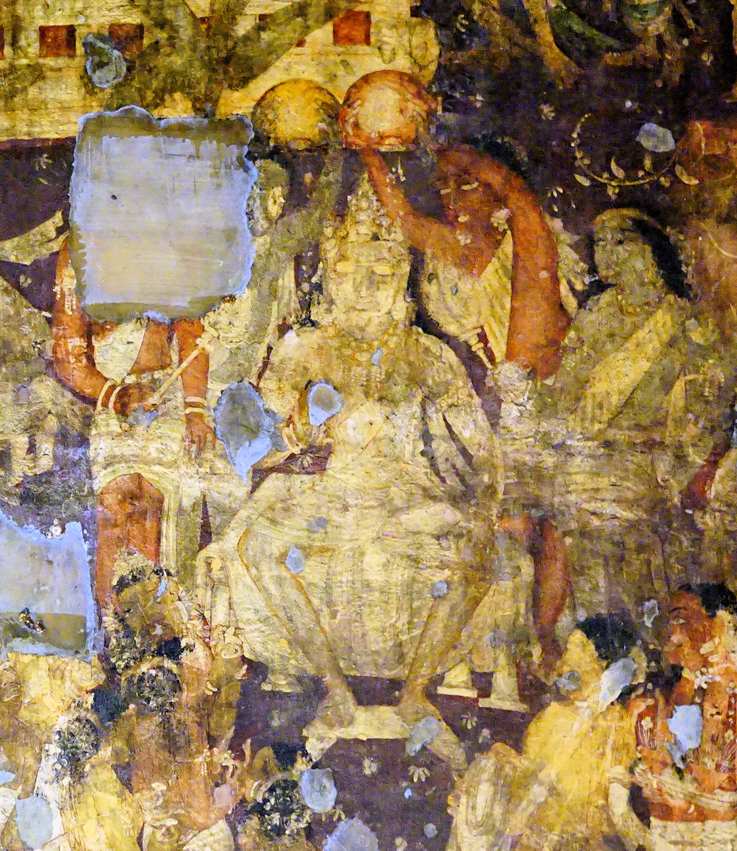 Consecration Of King Sinhala-Prince Vijaya (Detail From The Ajanta Mural Of Cave No 17)